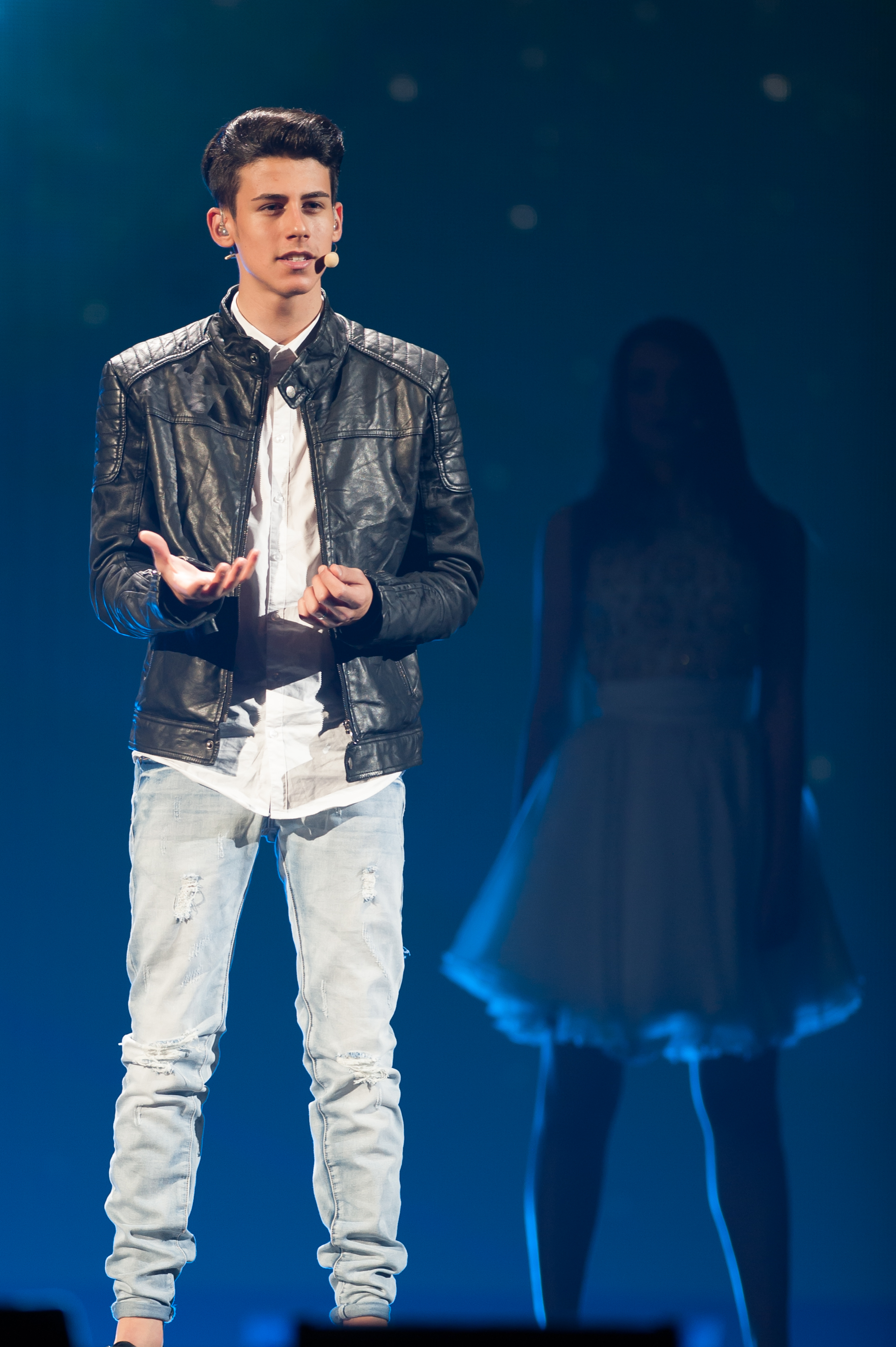 Eurovision Song Contest Vienna 2015: Michele Perniola & Anita Simoncini